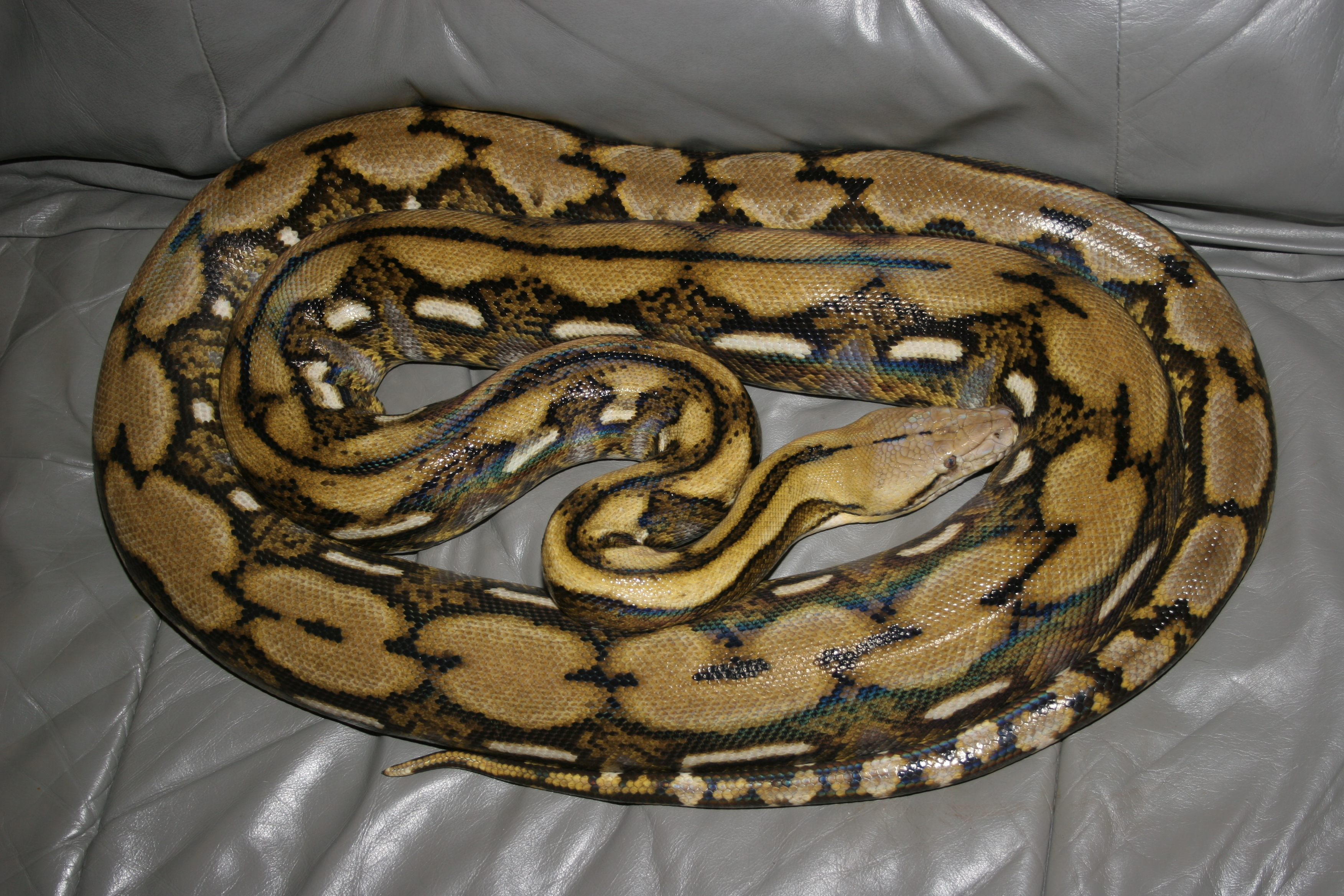 Photo by Mark Patterson, of his 2 year old, 3 meter long female tiger Reticulated python. Photo date: 4 January 2007